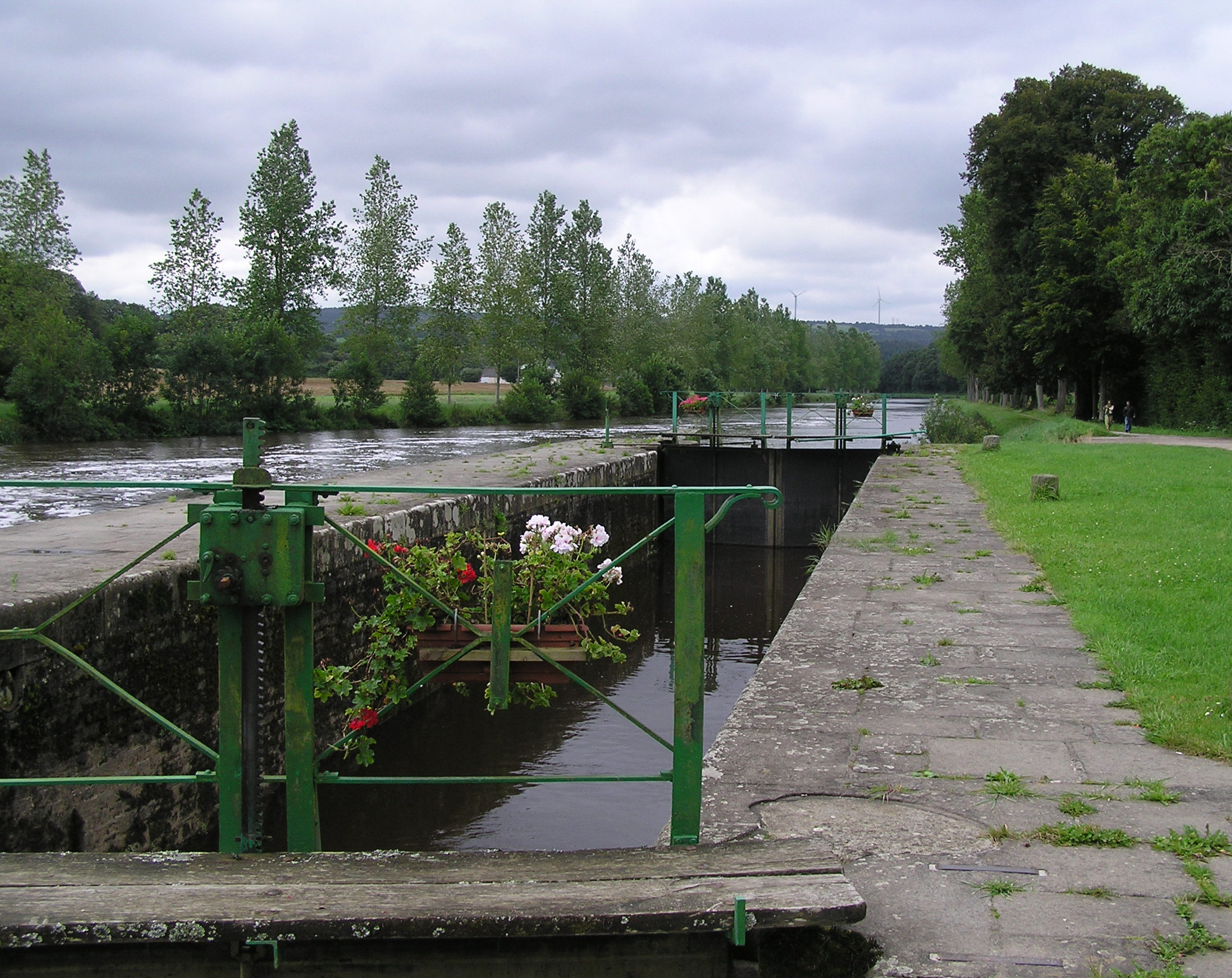 Lock n°234 (Toul ar rodo) on the canal from Nantes to Brest